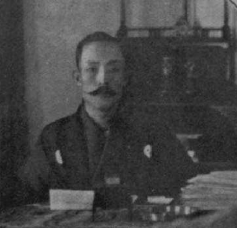 Park Jung-yang, Korean politicians